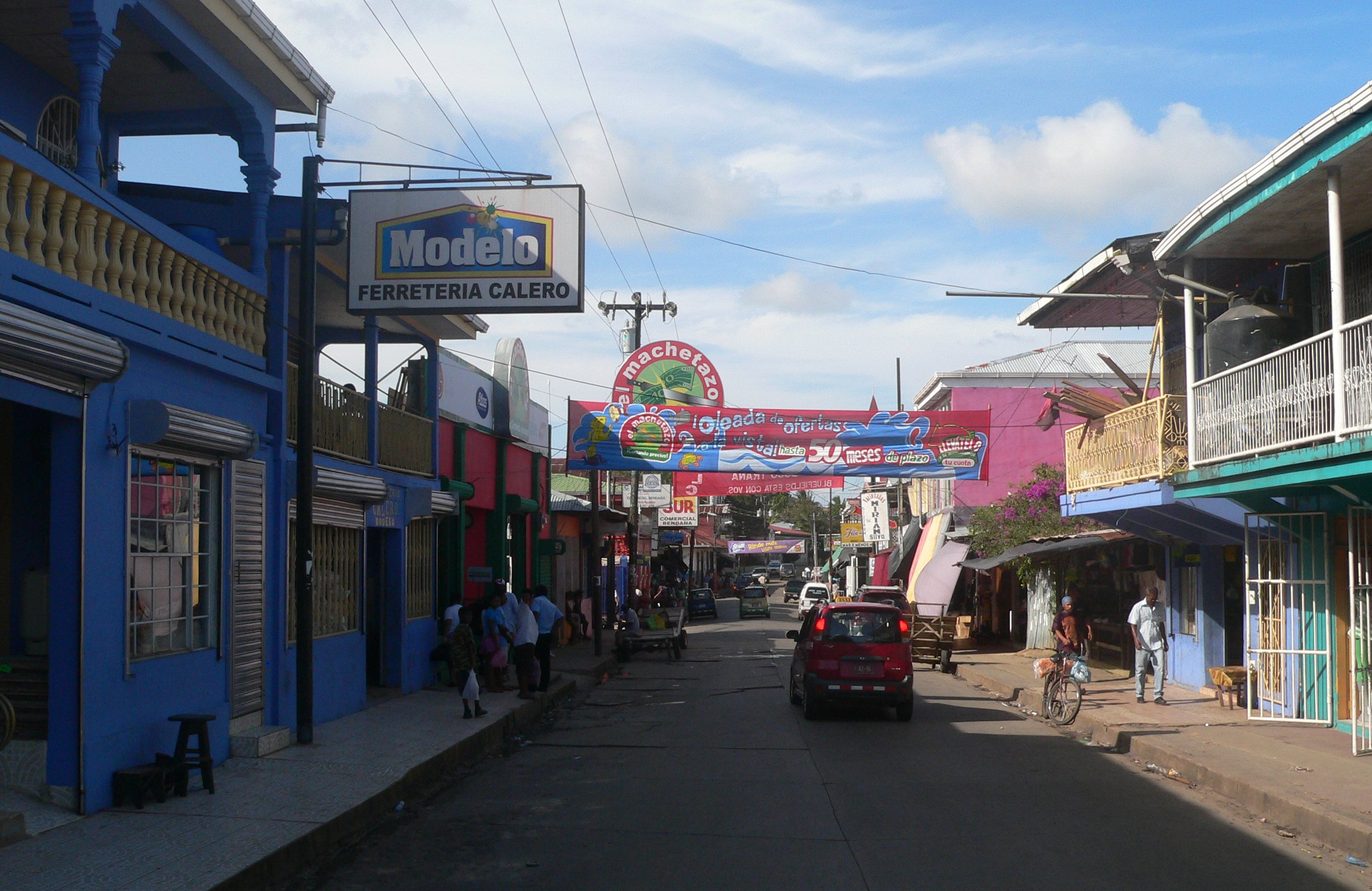 A typical Bluefields, Nicaragua street scene.